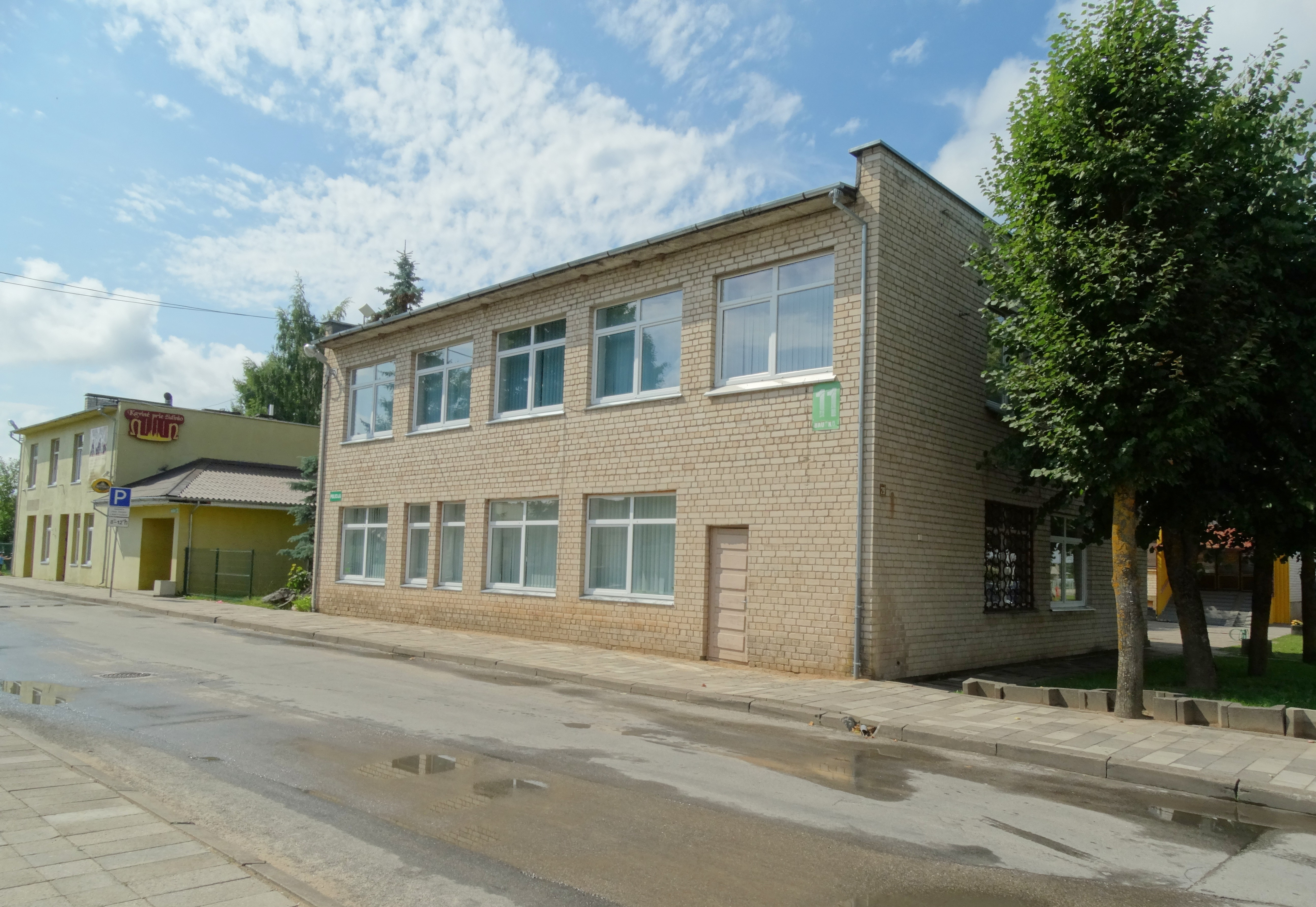 Street, Venta, Akmenė district, Lithuania